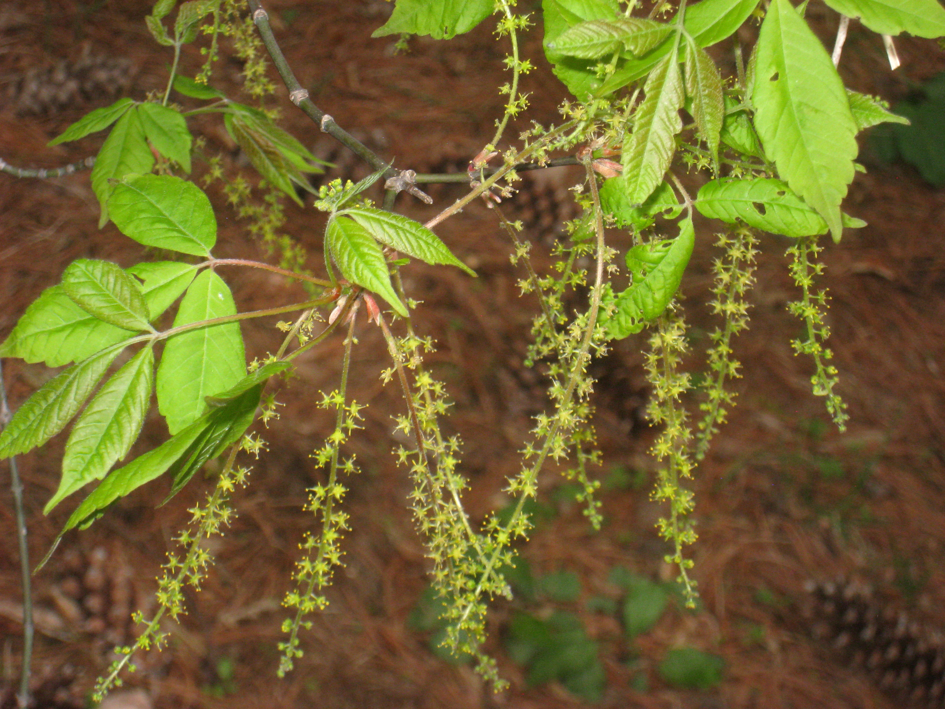 Acer henryi, Arnold Arboretum, Jamaica Plain, Boston, Massachusetts, USA.